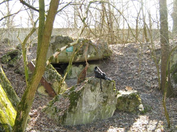 Pillbox 409 of Kyiv Fortified Region, Kyiv, Ukraine